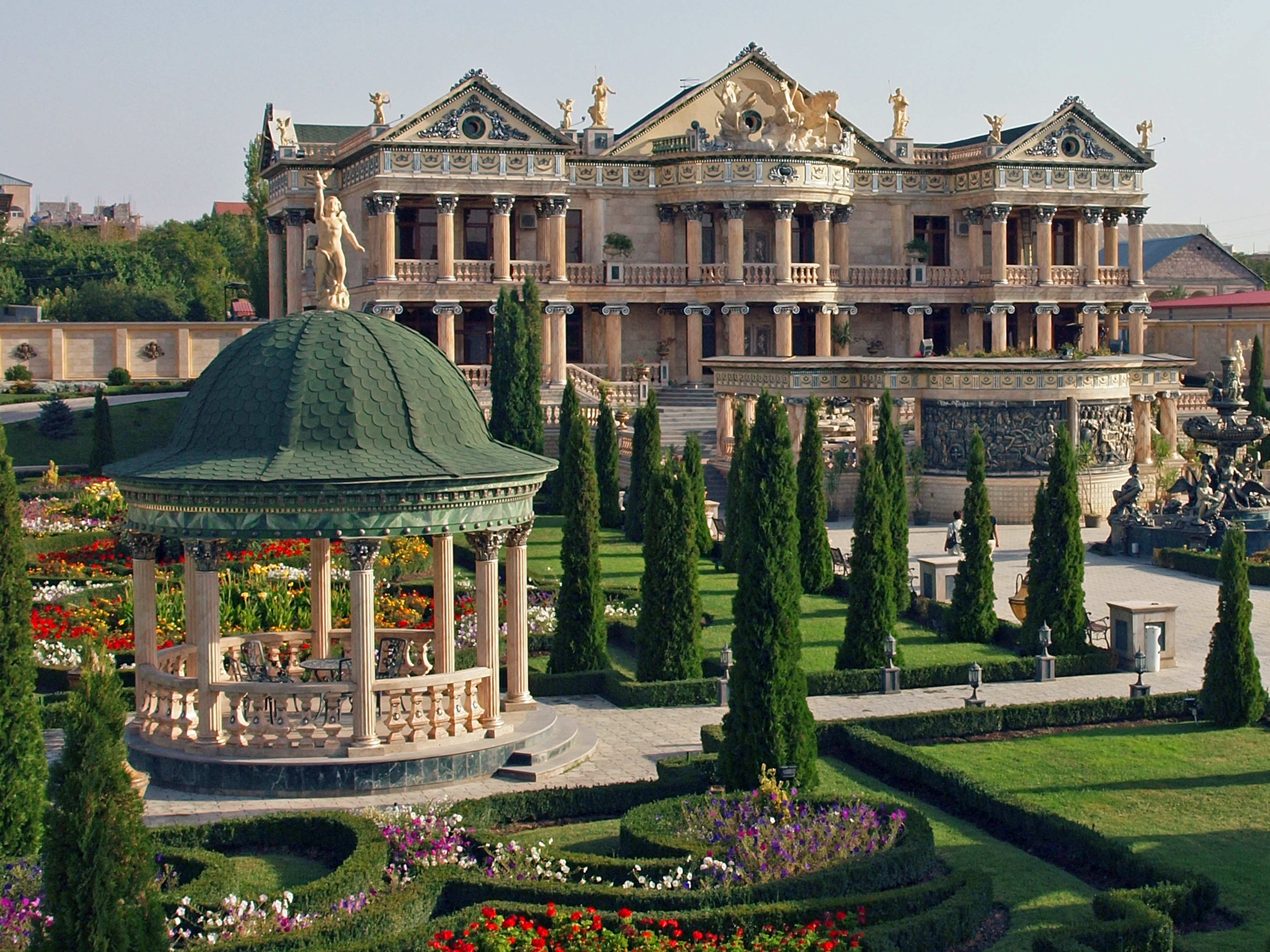 Ajapnyak, Yerevan, Armenia